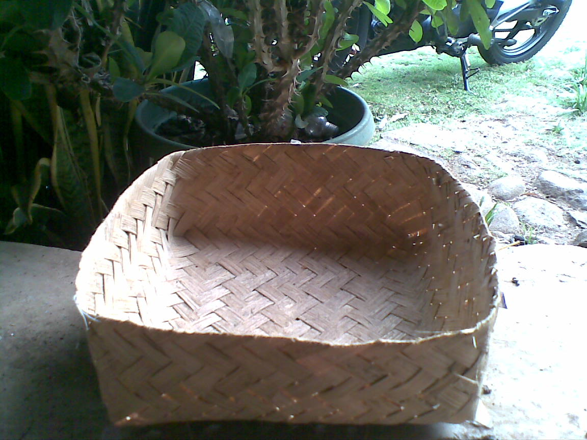 A braided bamboo basket.